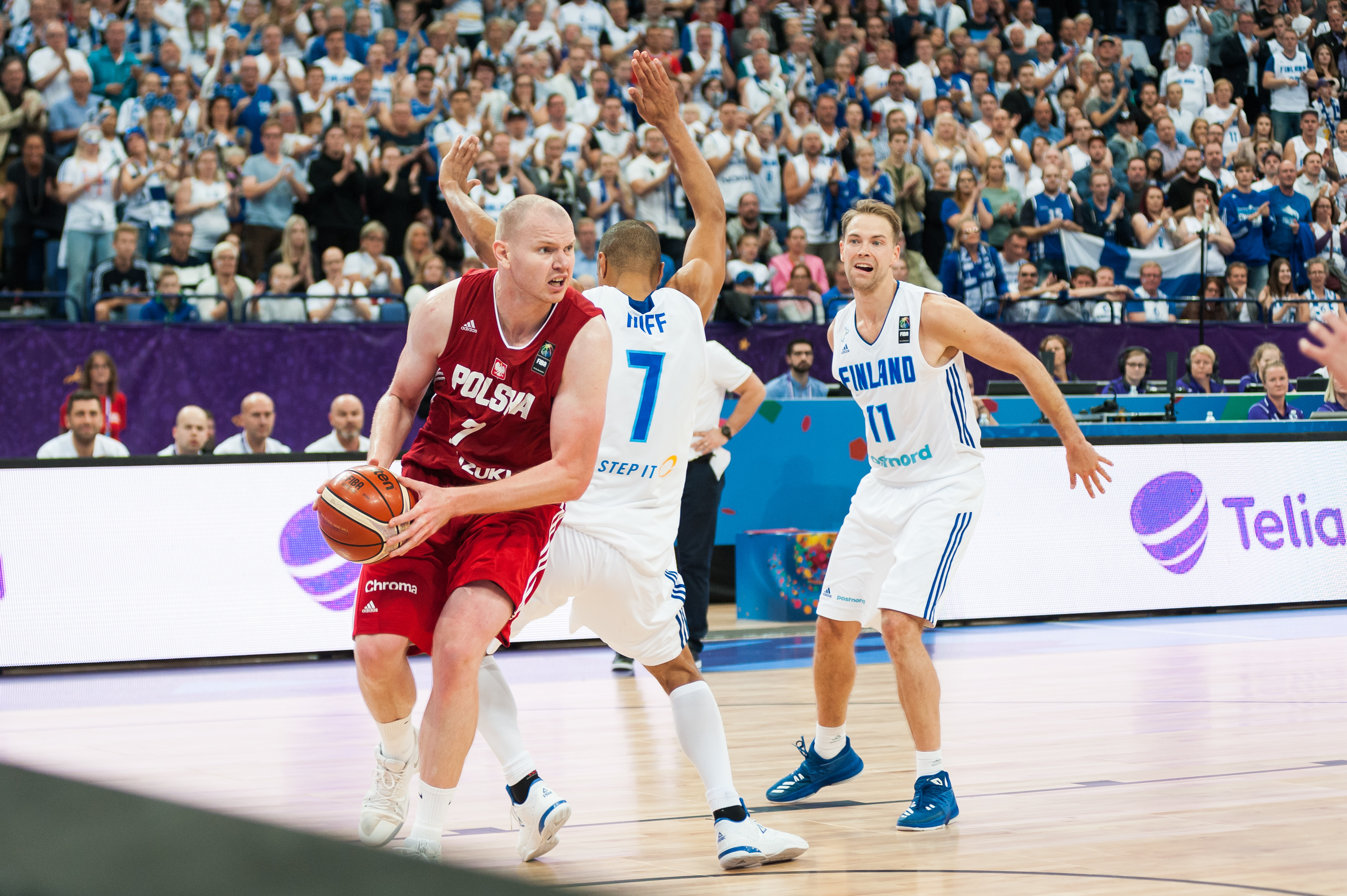 EuroBasket 2017 Group A game between Finland and Poland at Hartwall Arena in Helsinki, Finland.